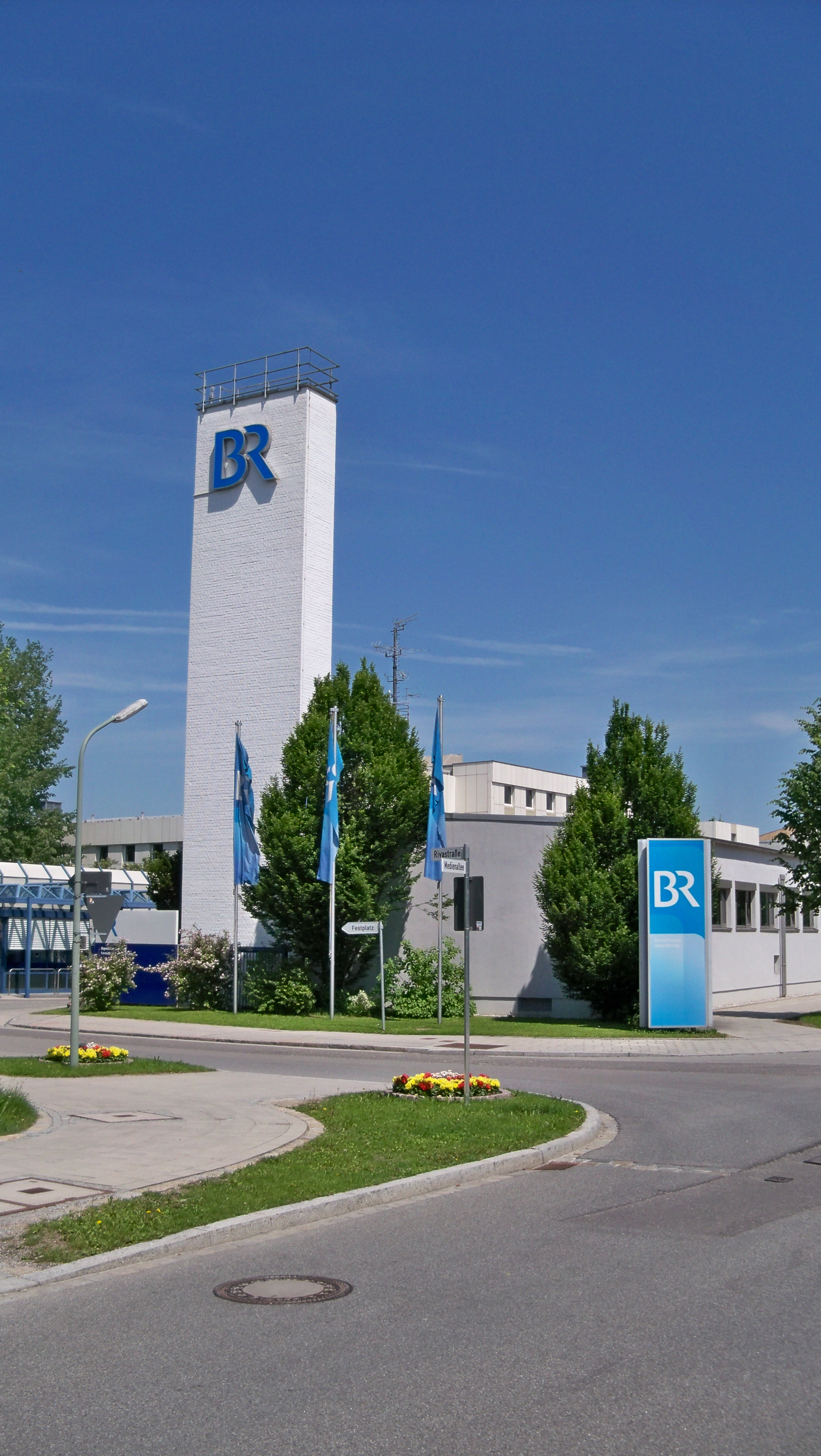 Bayerischer Rundfunk Fernsehstudio Unterföhring, Germany.